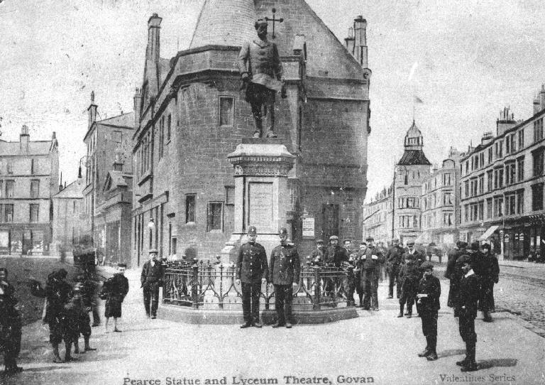 Govan, Glasgow, Scotland, UK in 1904. By the Govan Cross and Lyceum Theatre. Two police officers stand in the front.